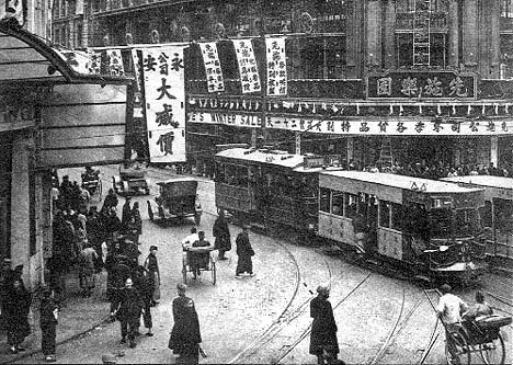 The postcard shows a tram passing through one of the busiest shopping streets of Shanghai, Nanjing Road, between the Sincere Company (right) and Wing On Company (left), two of the largest department stores in Shanghai, in the International Settlement of Shanghai in the 1920s